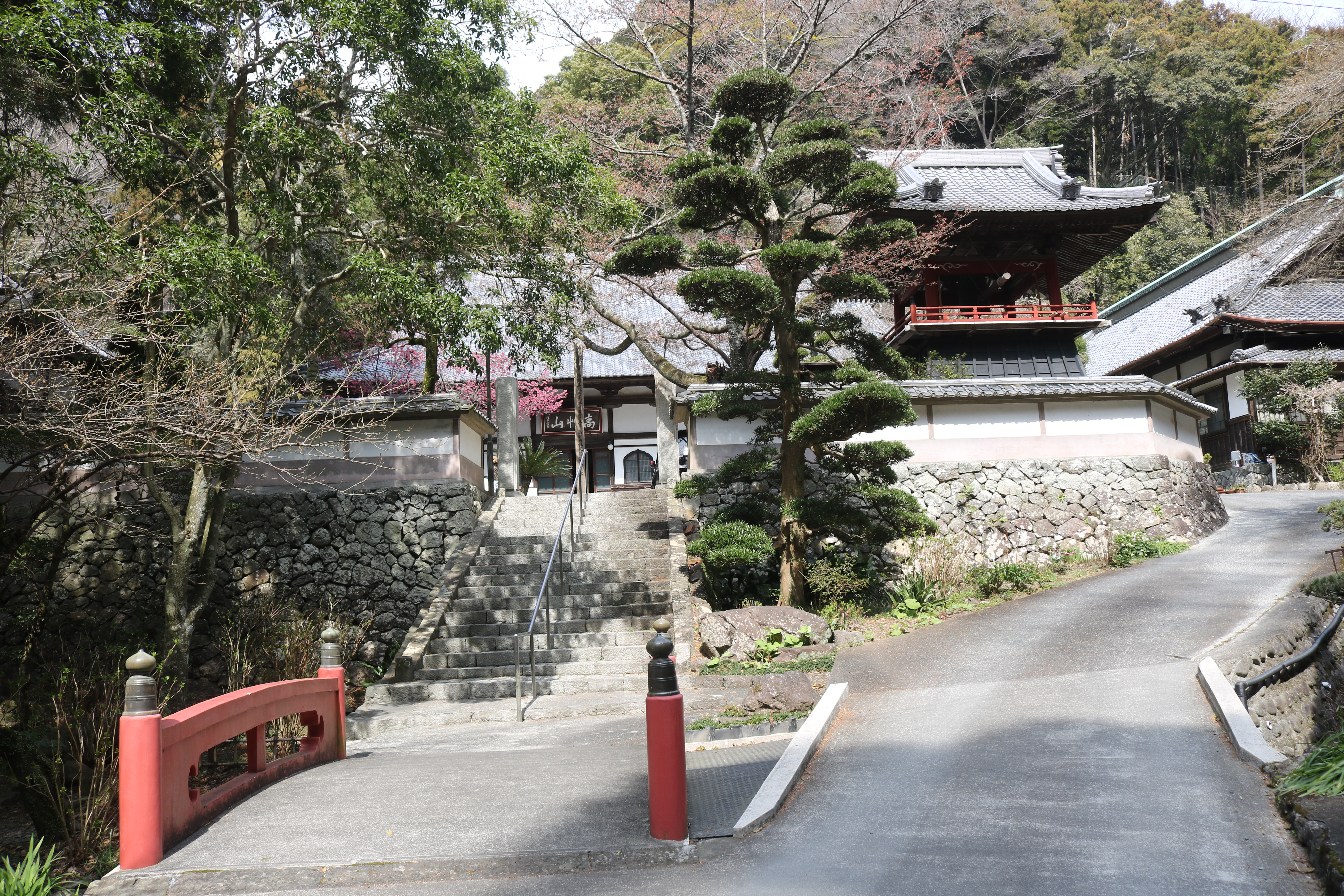 Rinsoin (Rinsōin), a Buddhist temple of Sōtō in Sakamoto Yaizu, Shizuoka Prefectue, Japan.